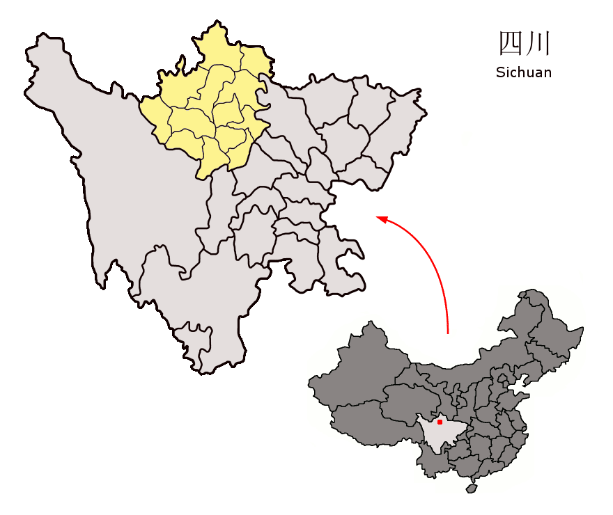 Location of Ngawa Prefecture (yellow) within Sichuan province of China Map drawn in september 2007 using various sources, mainly : Sichuan province administrative regions GIS data: 1:1M, County level, 1990 Sichuan Counties map from